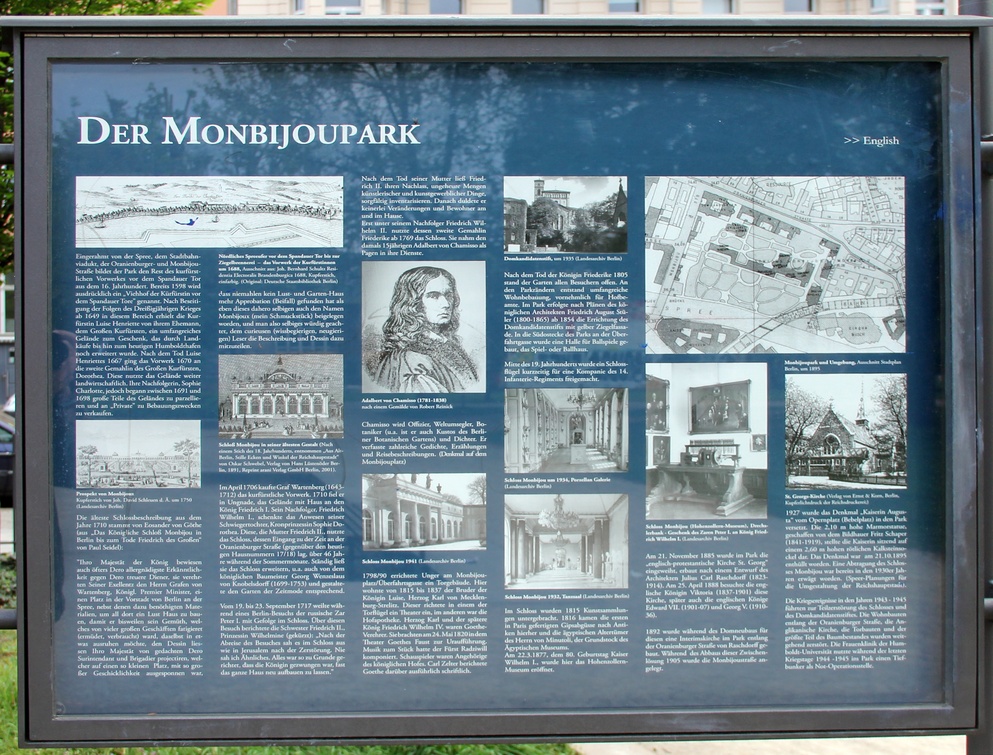 Memorial plaque, Monbijoupark, Monbijouplatz, Berlin-Mitte, Germany